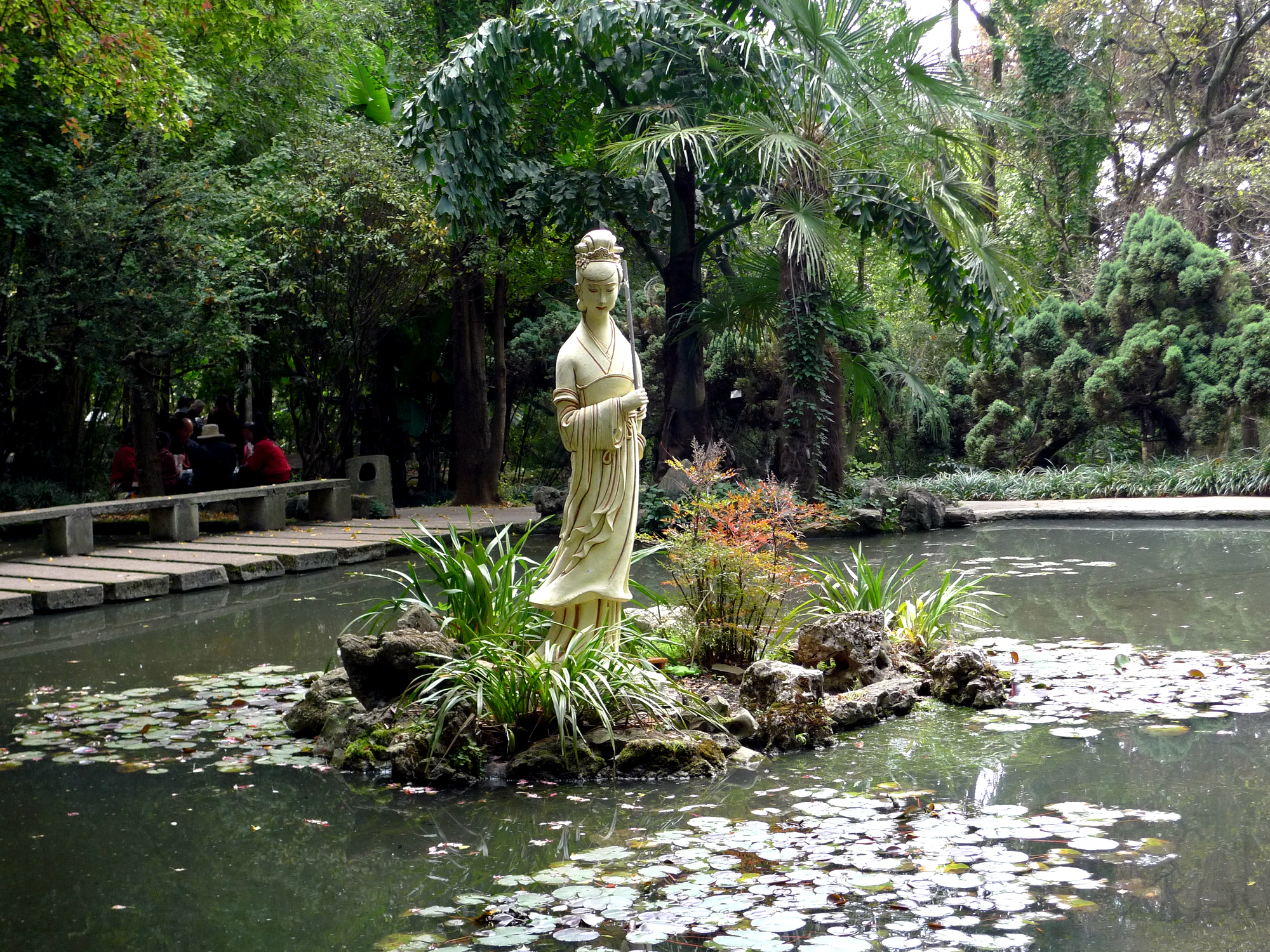 Statue of Chen Yuanyuan at Kunming Taihe Palace